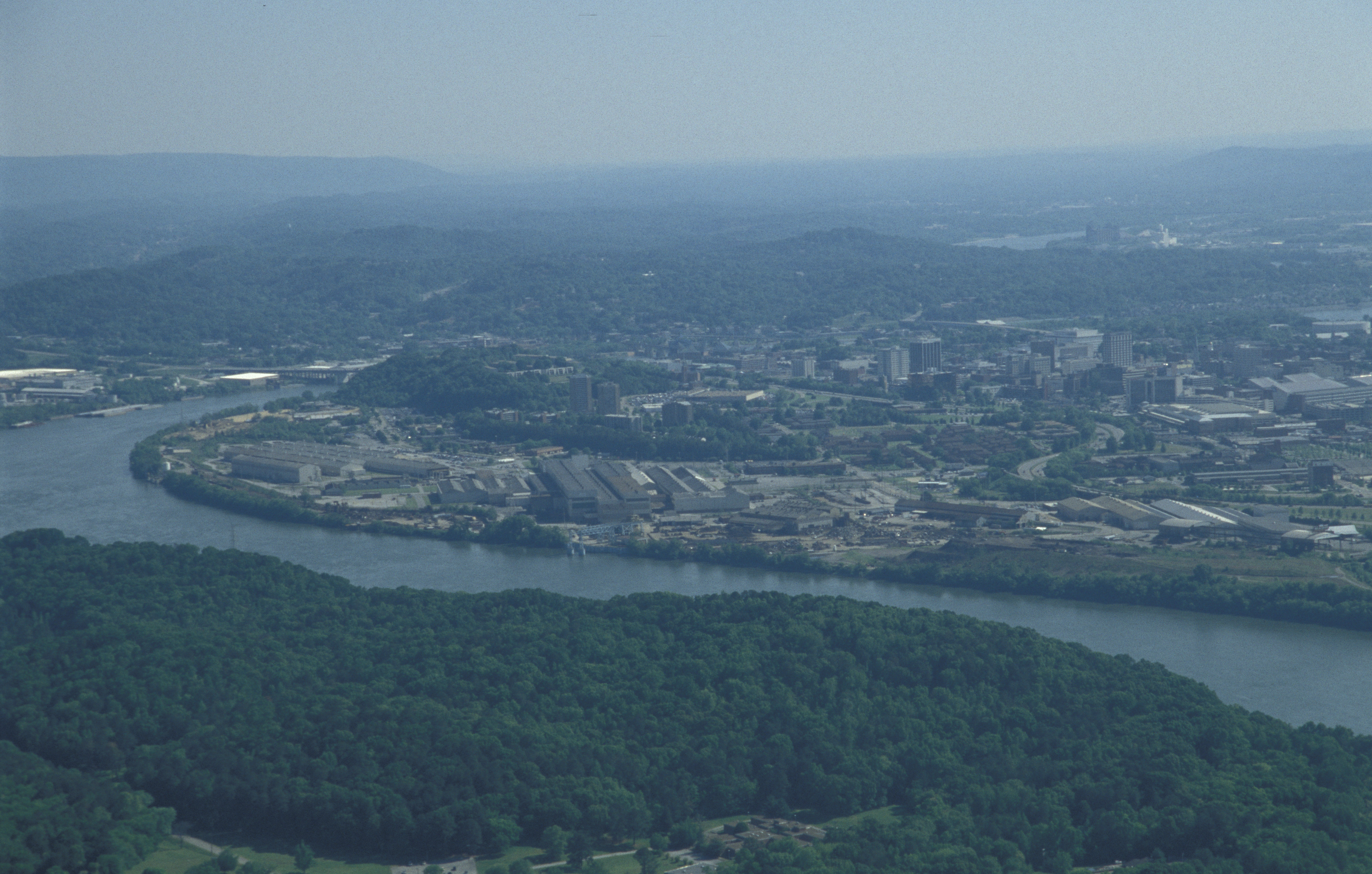 Chattanooga (city), Tennessee, USA, view from Lookout Mountain